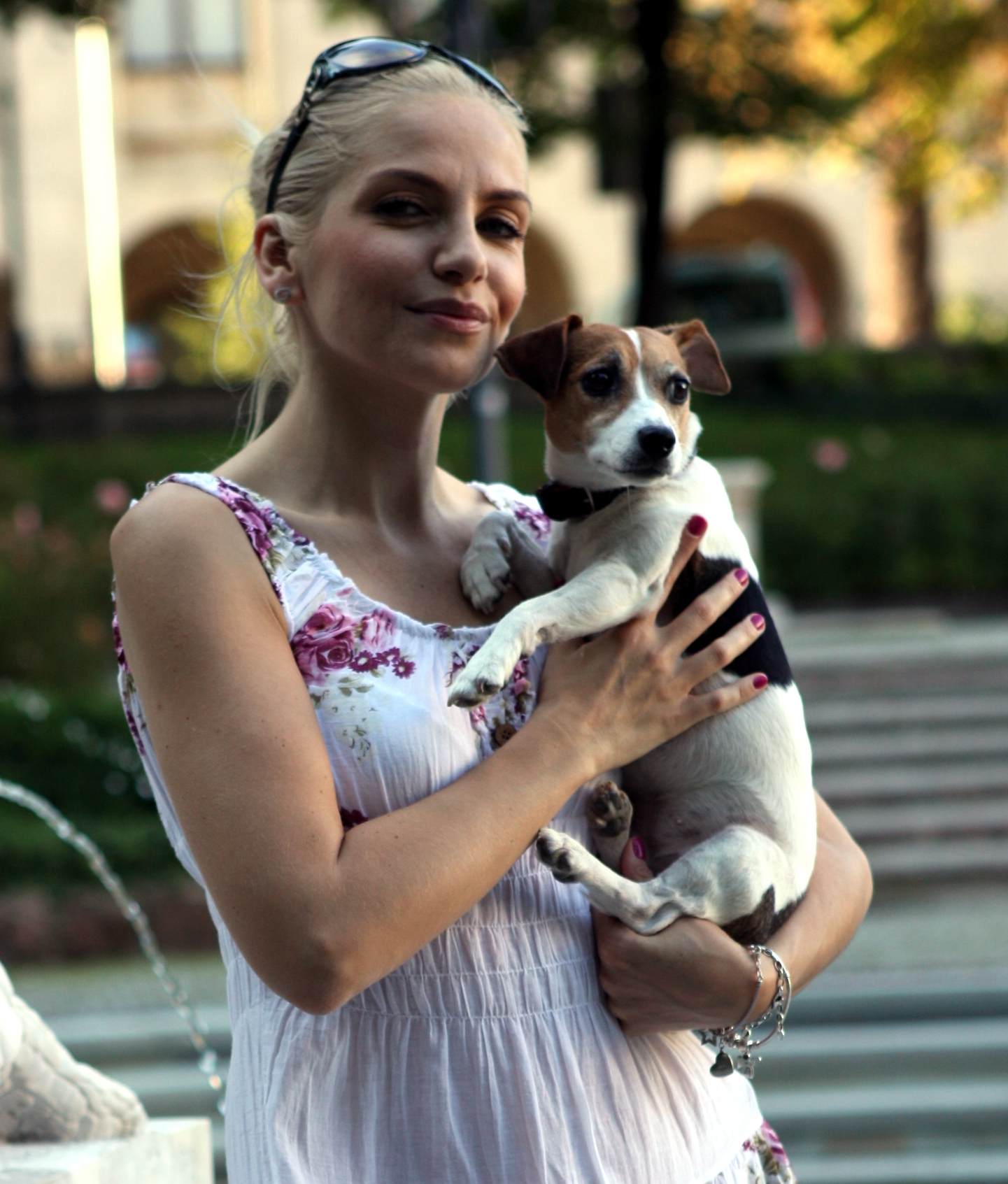 Maja Frykowska at Łazienki Królewskie in Warsaw.